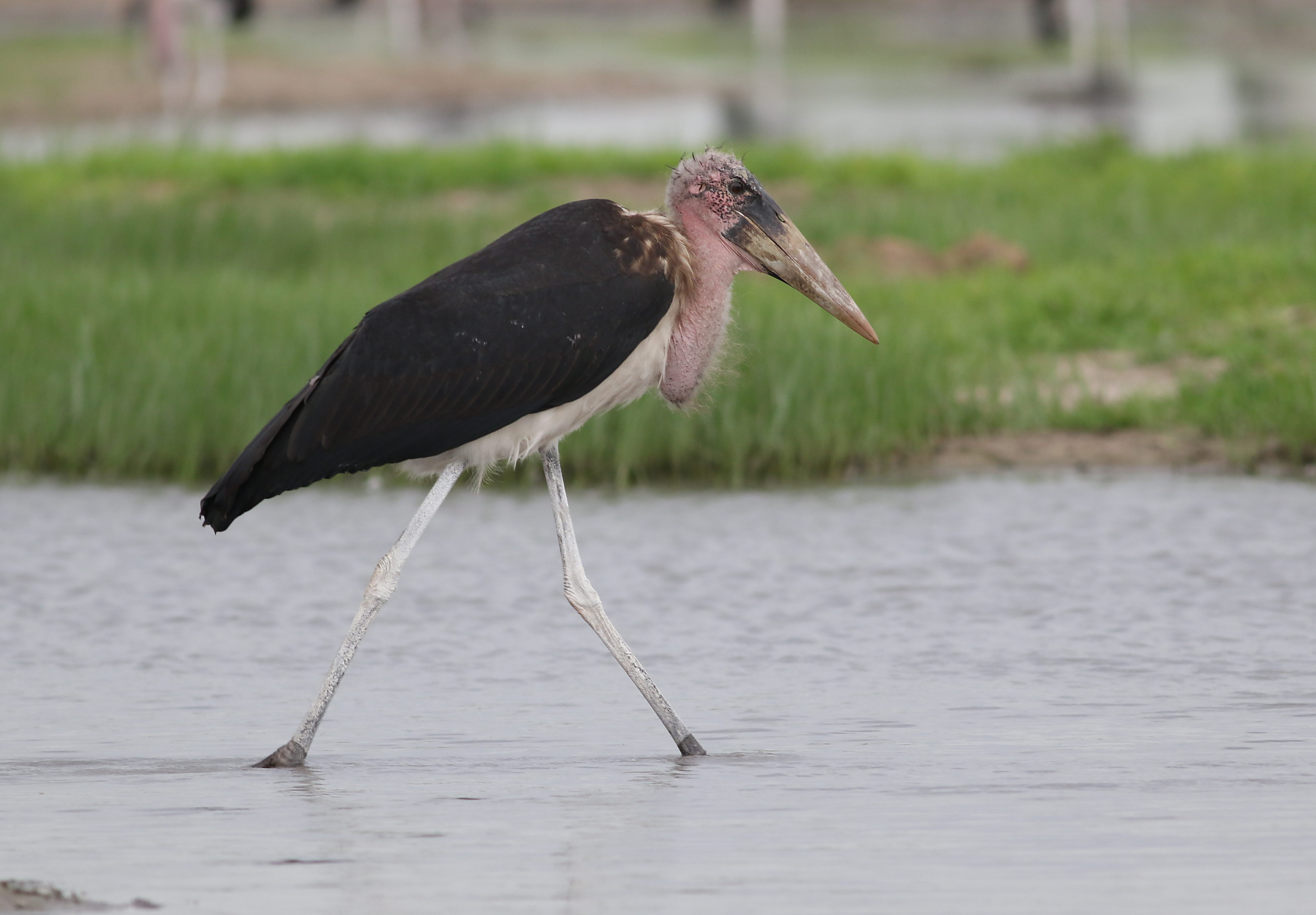 Marabou Stork, Leptoptilos crumeniferus, at the aptly named Marabou Pan, Savuti, Chobe National Park, Botswana